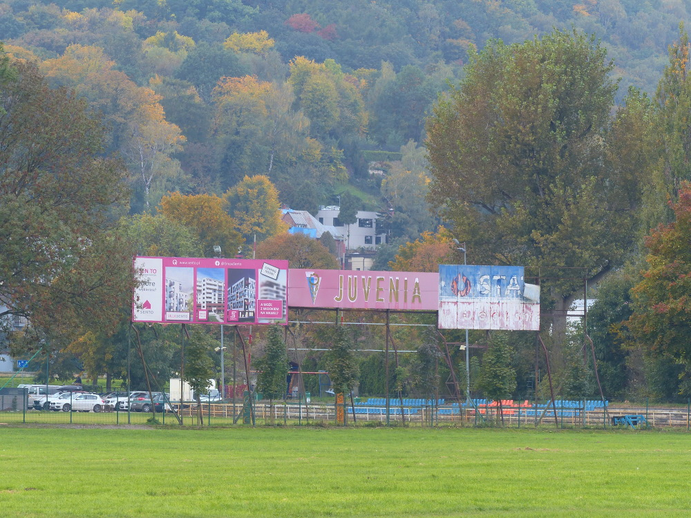 Juvenia Krakow stadium, view from Błonia, 2018